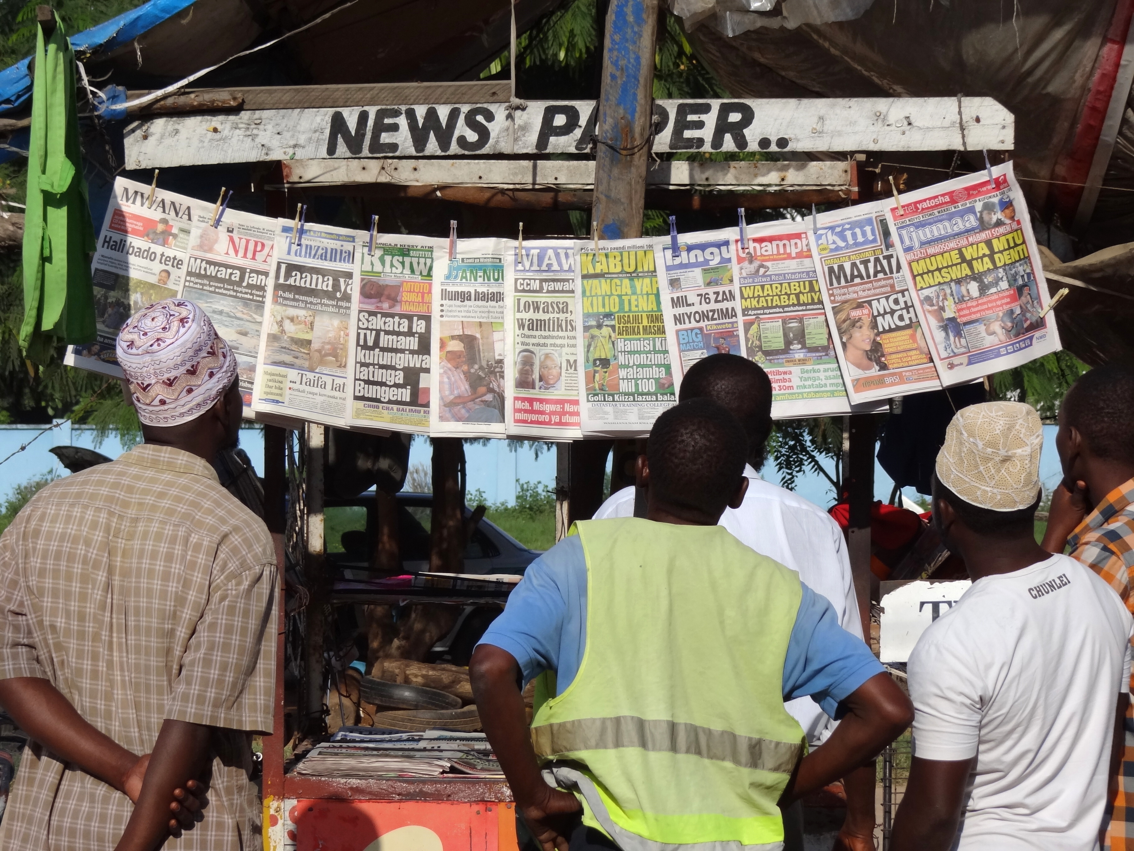 Perusing Papers at a Newsstand - Near Mwenge - Tanzania